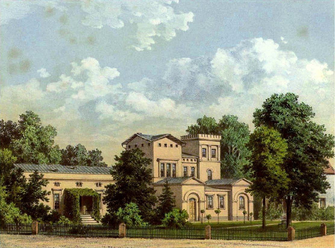 Manor in Pietronki